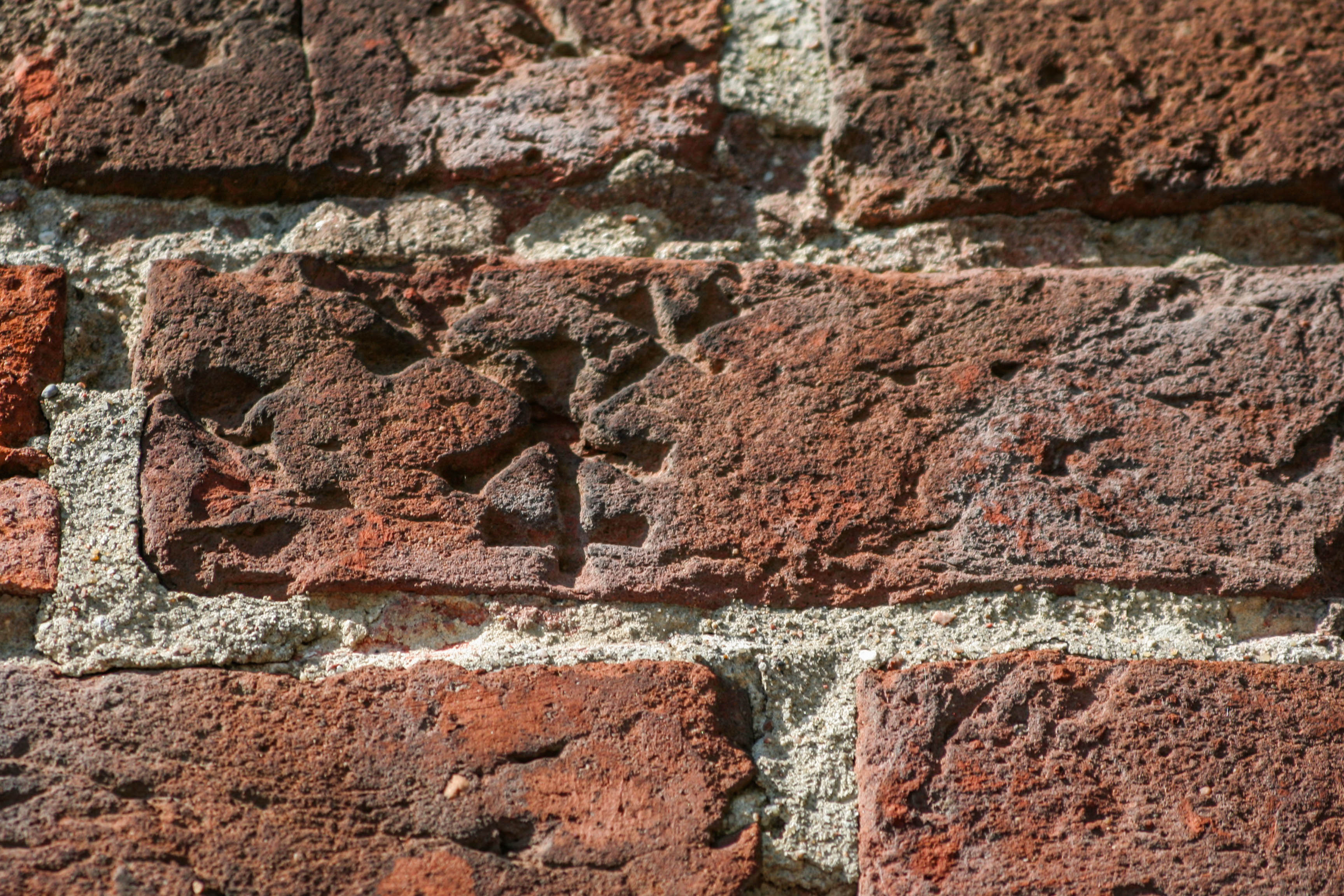 Mogilno, coat of arms of the city on the brick from the church of St. James